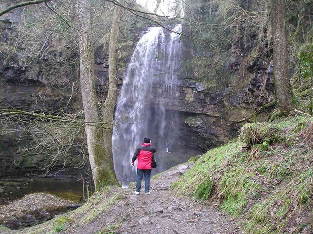 The falls High waterfall that you can walk behind situated in a deep steep sided valley